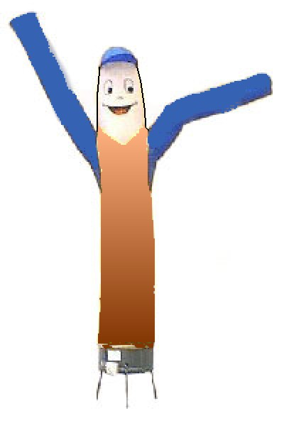 Wind sock puppet or doll to the gas station